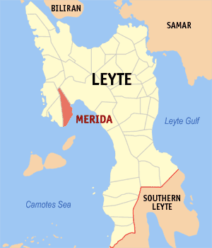 Map of Leyte showing the location of Merida